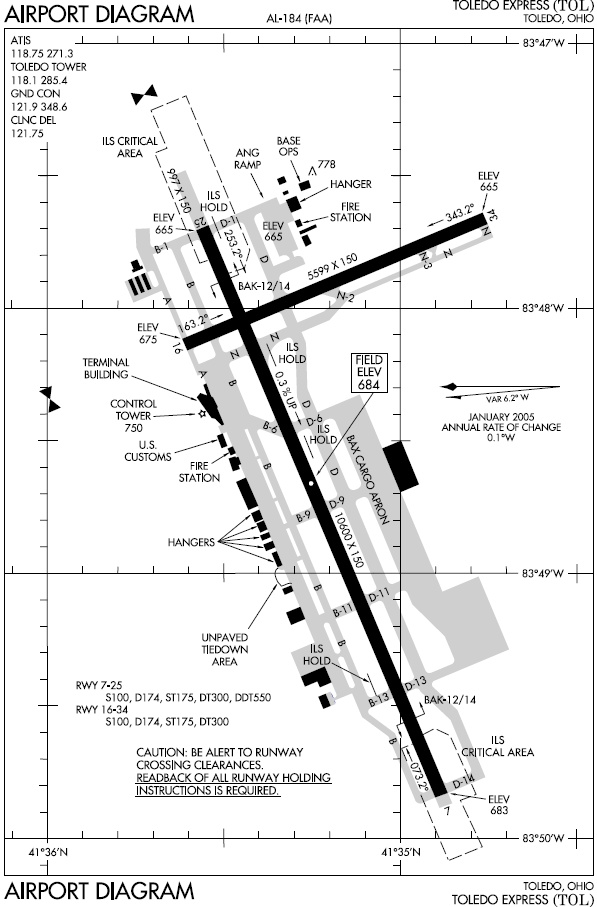 FAA diagram of Toledo Express Airport (TOL) in Toledo, Ohio. Produced by the National Aeronautical Charting Office (NACO), a department of the Federal Aviation Administration (FAA). Note: this URL changes monthly, for current diagram see: . category:Toledo Express Airport category:Federal Aviation Administration category:Maps